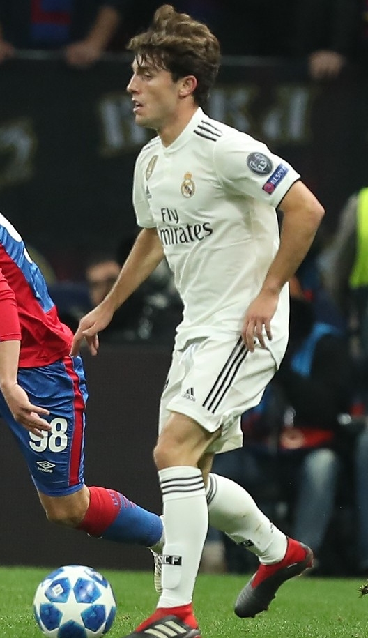 CSKA Moscow v Real Madrid, 2 October 2018